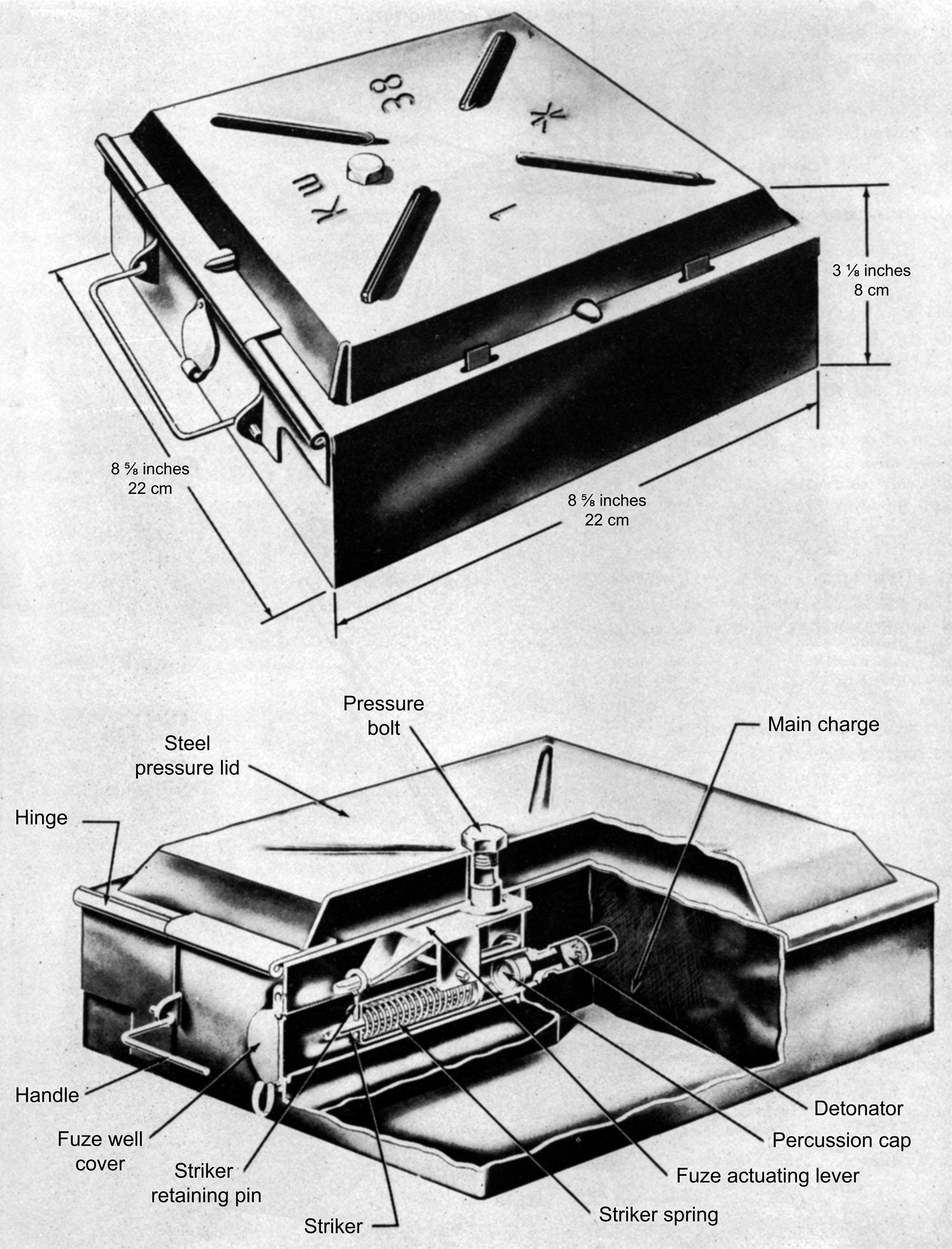 A Russian TM-38 landmine